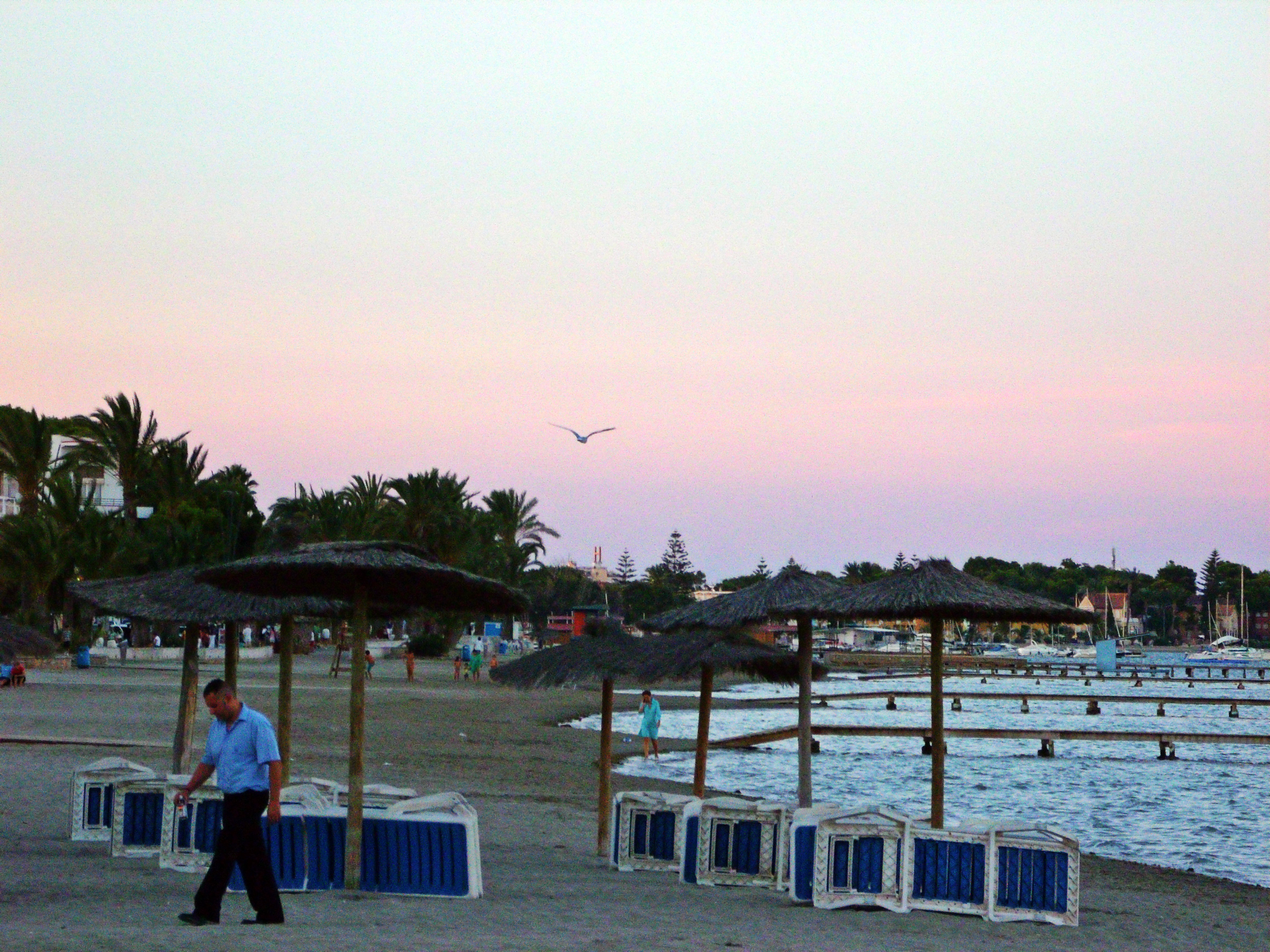 Colón Beach